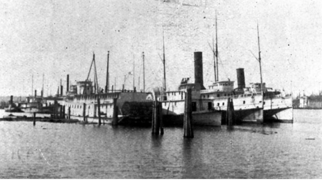 The Oregon Steam Navigation Company's steamboat "boneyard" in North Portland, Oregon, 1892.